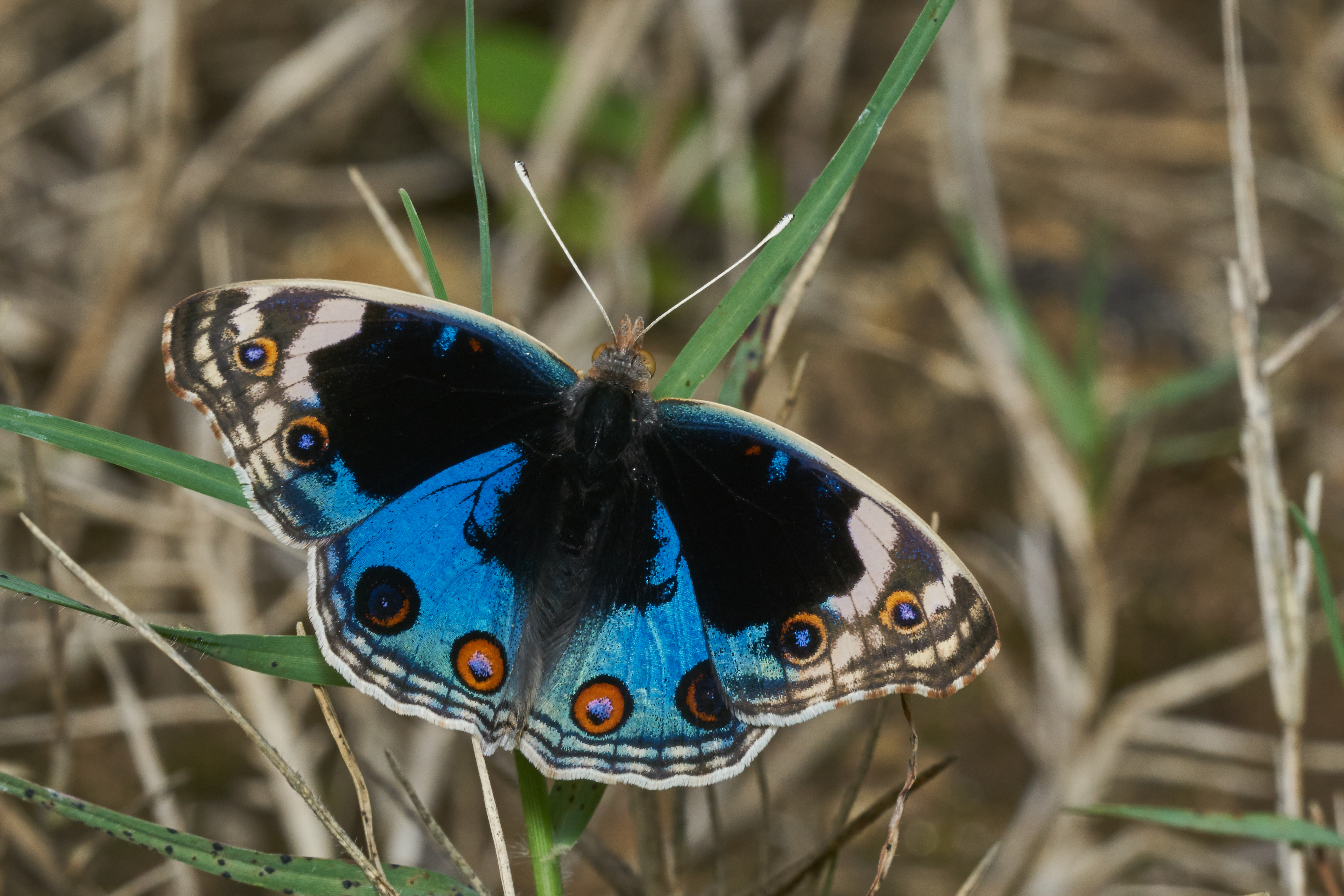 Junonia orithya is a species of nymphalid butterfly with many subspecies found in Africa, Asia and Australia.